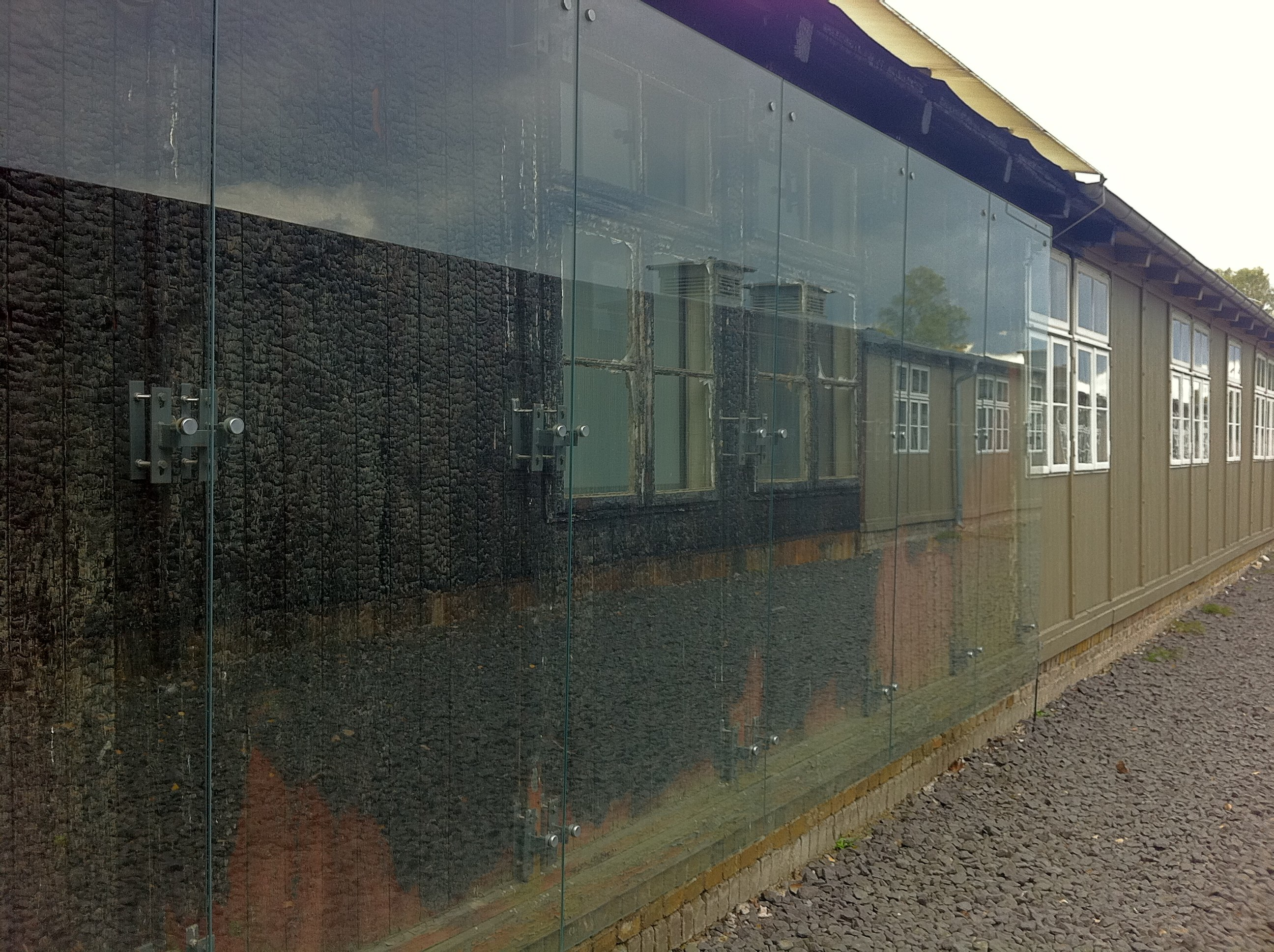 This image shows the damage done to one of the barrack buildings at Sachsenhausen Concentration Camp, Oranienburg, Germany, during an arson attack by Neo Nazis. The building has been covered in sheets of glass to protect it, but to make the damage visible to those visiting the camp. This shows the problems still caused in Germany by a small number of organised Neo Nazis. In the reflection of the glass you can see the neighbouring museum, which has been completely encased in concrete to prevent a repeat attack.